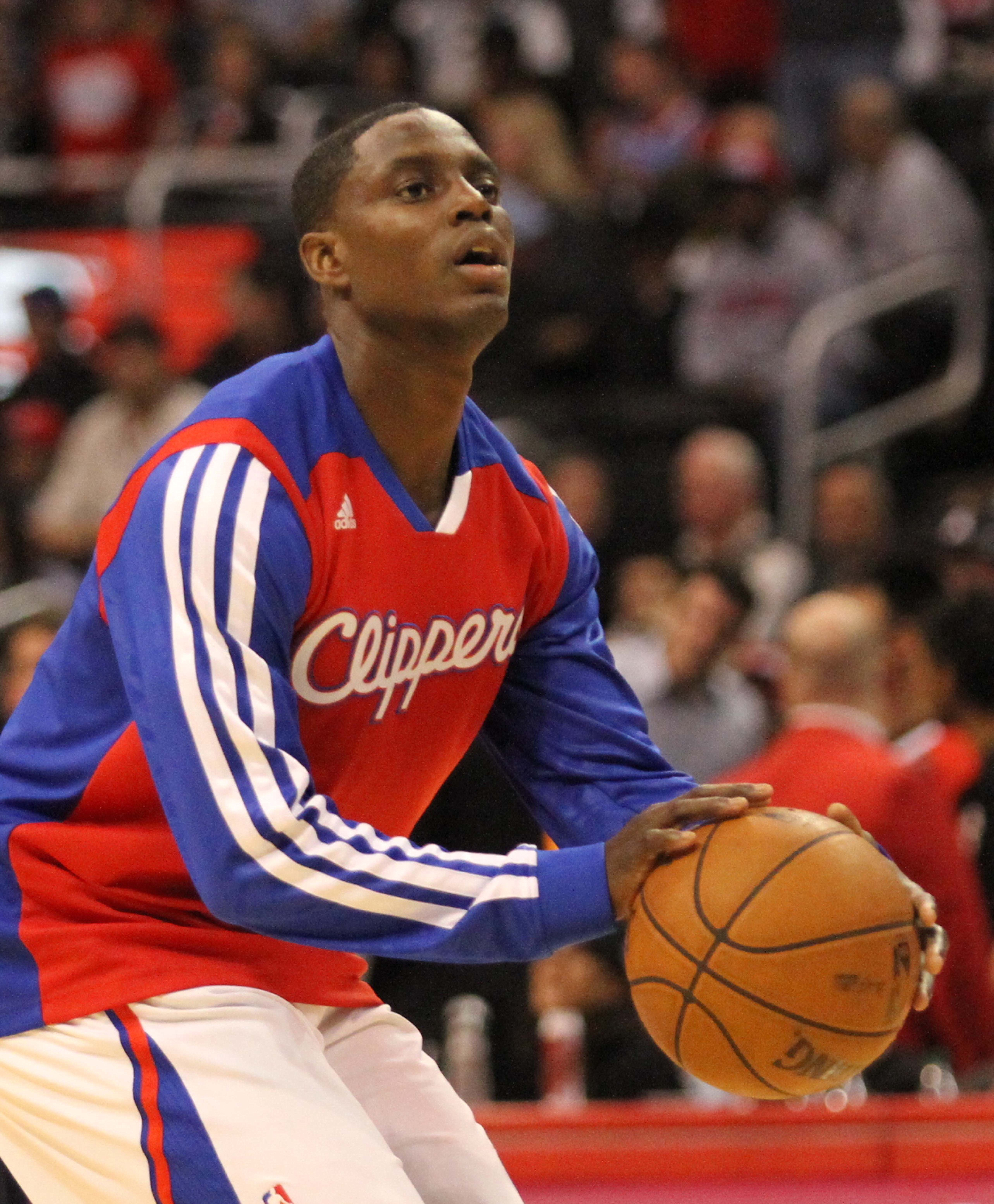 Darren Collison of the Los Angeles Clippers